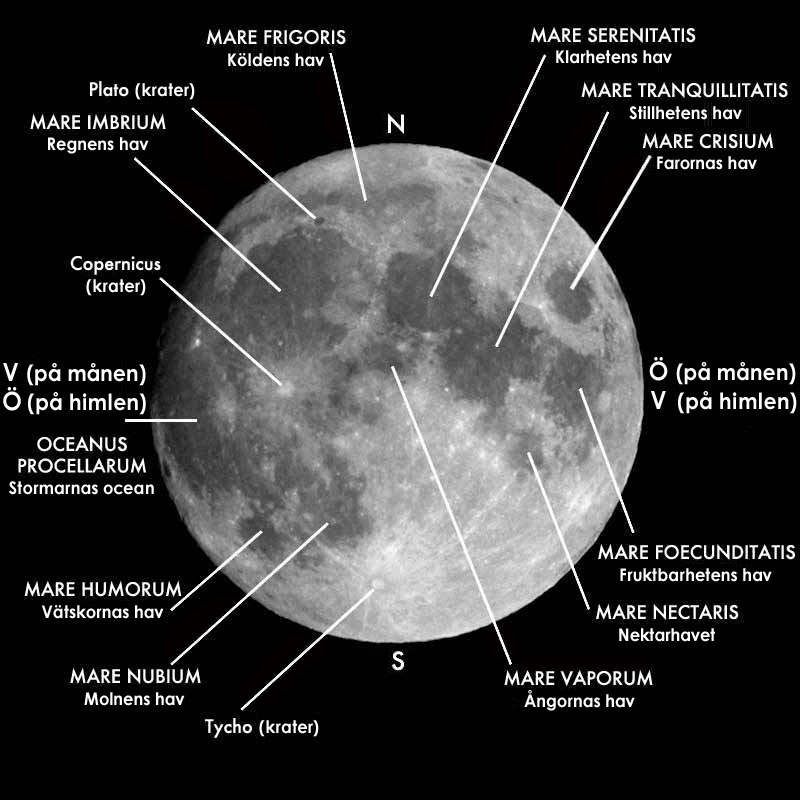 Lunar nearside with major maria and craters labeled